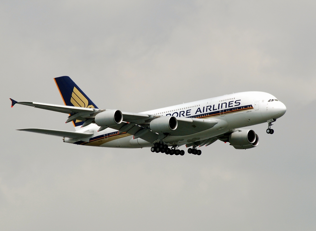 Singapore Airlines (SIA/SQ) Airbus A380 (9V-SKA) landing on 20C at Singapore Changi Airport. Taken with a Nikon D80 and AF 70-300 f/4-5.6G lens.